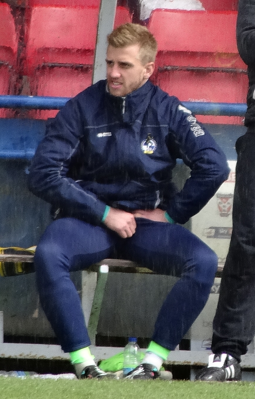 Will Puddy during Bristol Rovers' match against York City at Bootham Crescent, York on 30 April 2016